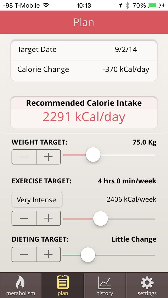 Use of Breezing iOS App, first release to App Store